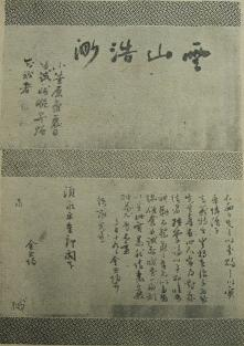 Letters of Kim Ok-kyun